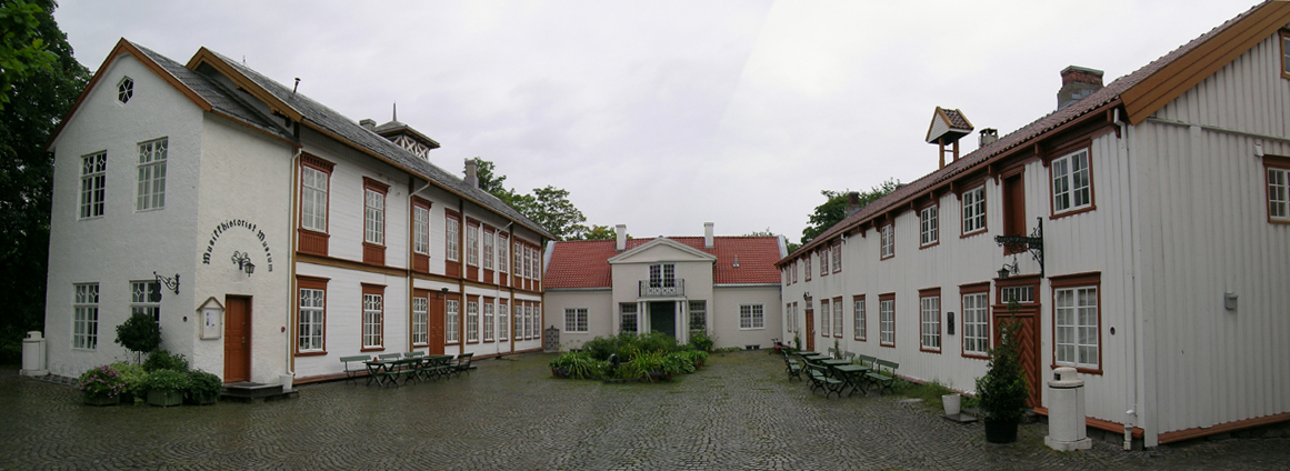 Ringve gård, Trondheim, Norway. The building to the right (Wesselbygningen) from 1736; the building to the left from 1860. The building in center from 1950. Since 1952 Museum of music history. Protected by law 1941.